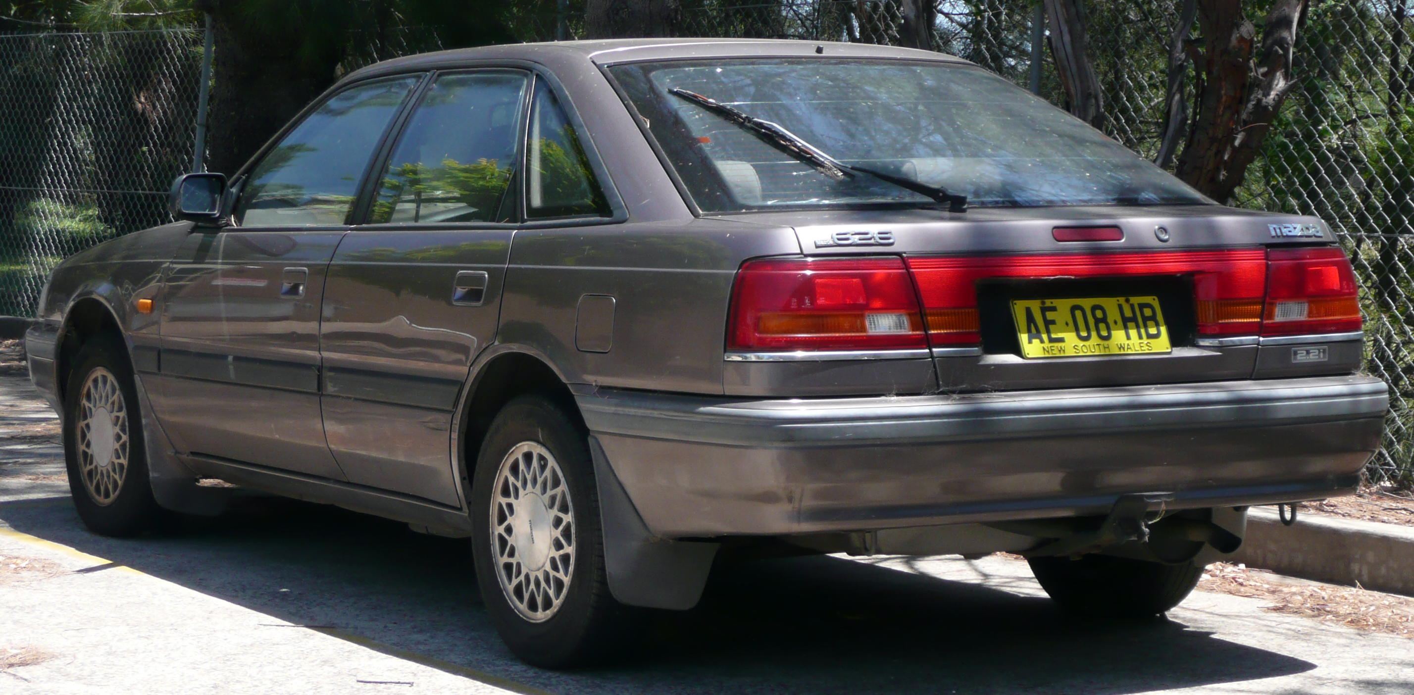 1990 Mazda 626 (GD Series 2) 2.2i hatchback. Photographed in Taren Point, New South Wales, Australia.